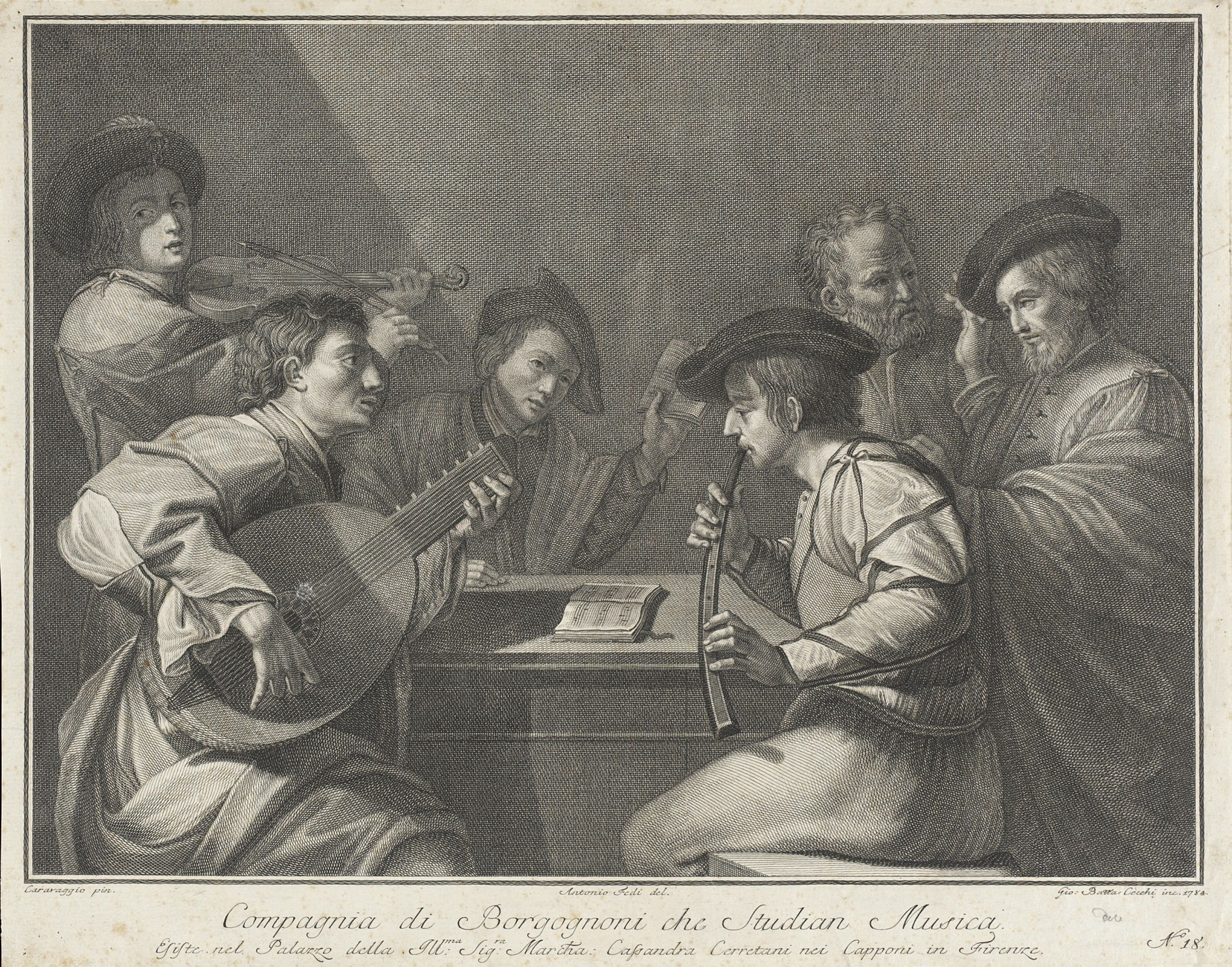 Italy, 1784 Prints; engravings Engraving Gift of Alfred and Esther Norris (M.83.318.24) Prints and Drawings